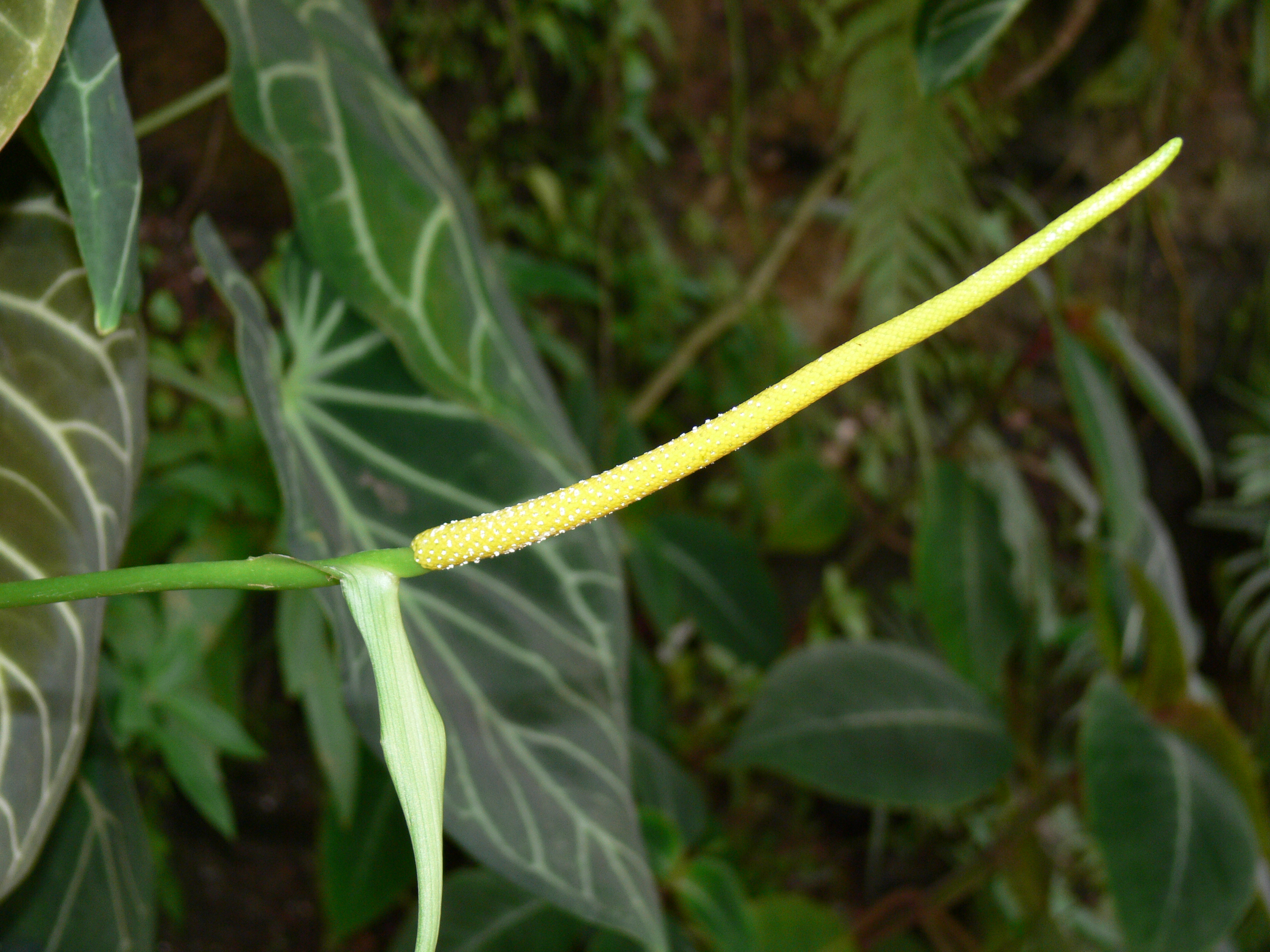 Anthurium crystallinum inflorescence, in the botanical garden in Troja, Prague, CZ (Fata Morgana greenhouse)